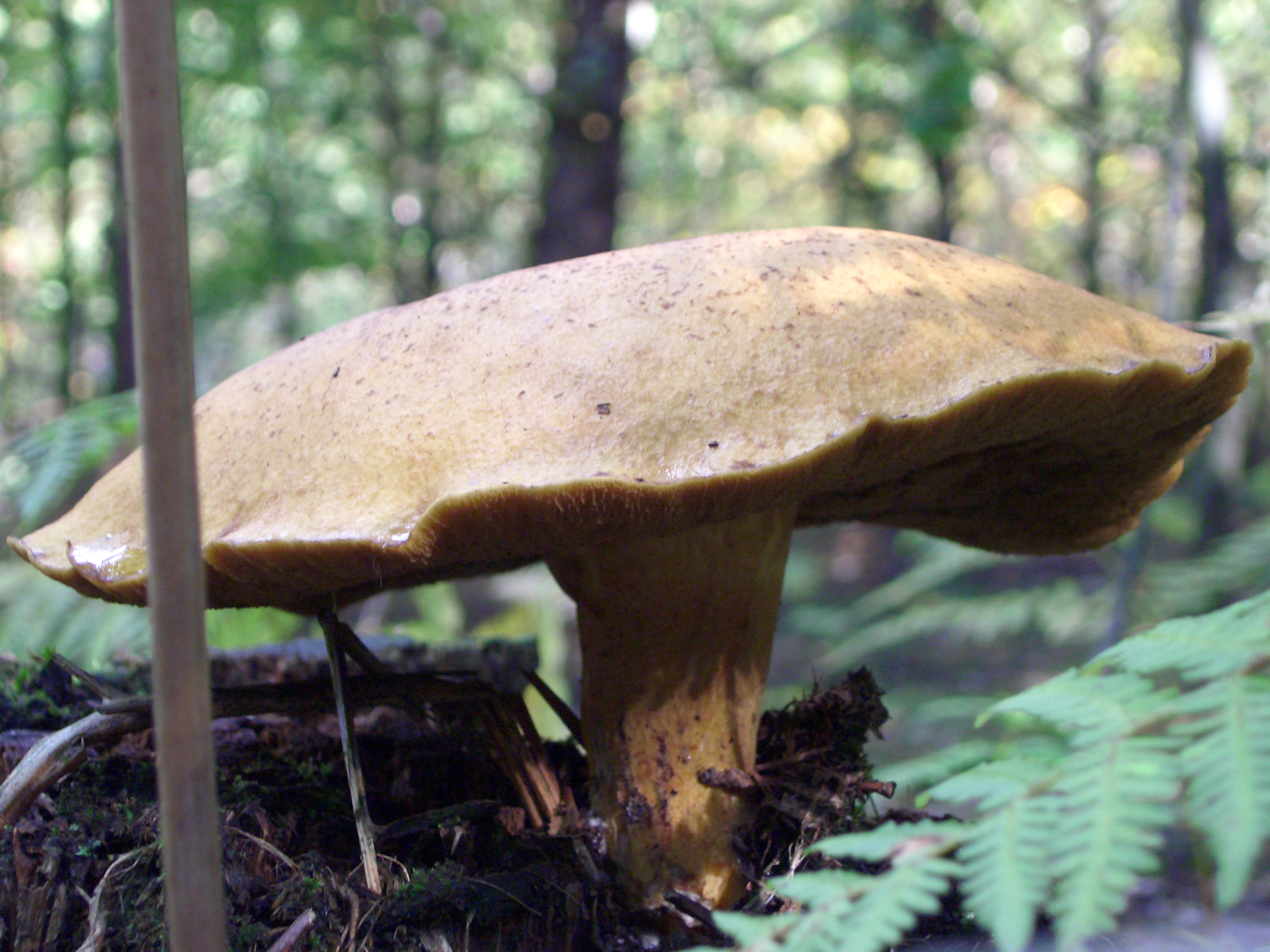 Large specimen of Buchwaldoboletus hemichrysus, found in River Elbe valley, Czech Repzblic.